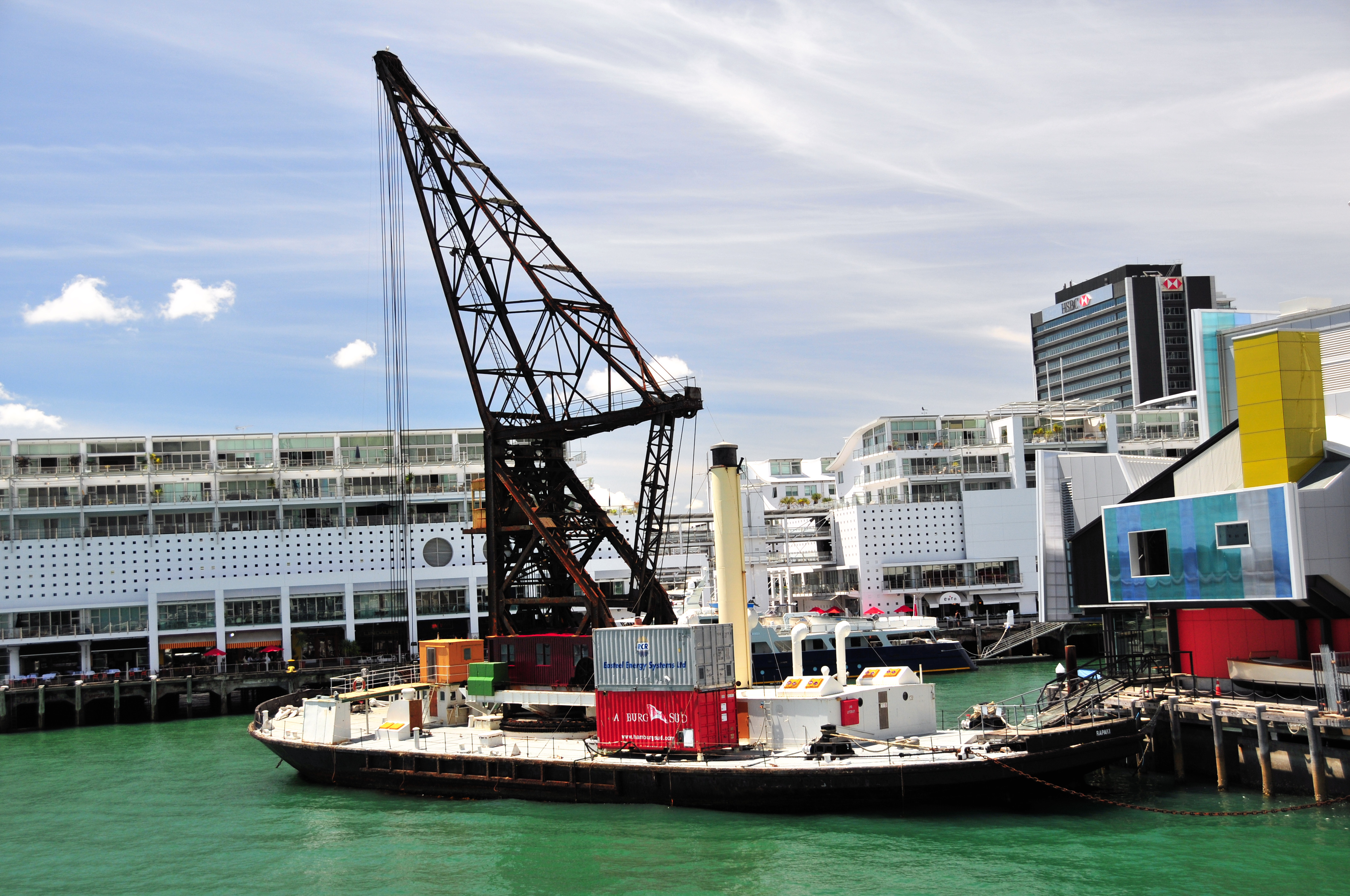 Rapaki, a floating steam crane, built 1926 in Scotland for the Lyttelton Harbour Board.